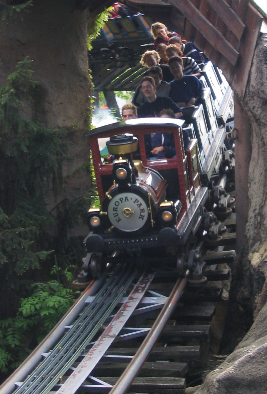 Alpenexpress in Europa-Park, Rust, Germany